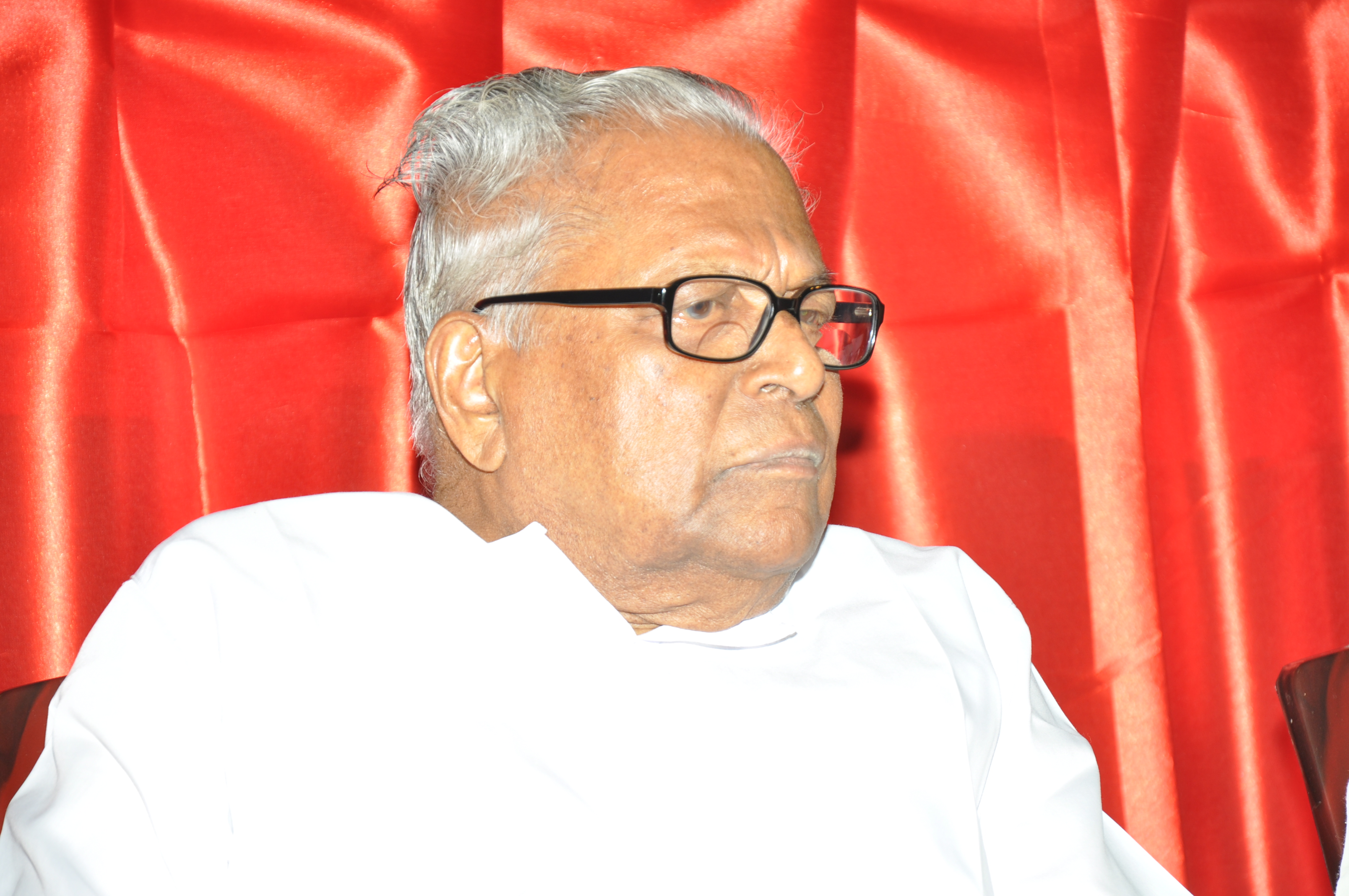 This media file is uploaded with Malayalam loves Wikimedia event - 2. VS IN CPI STATE MEET KOLLAM 2012